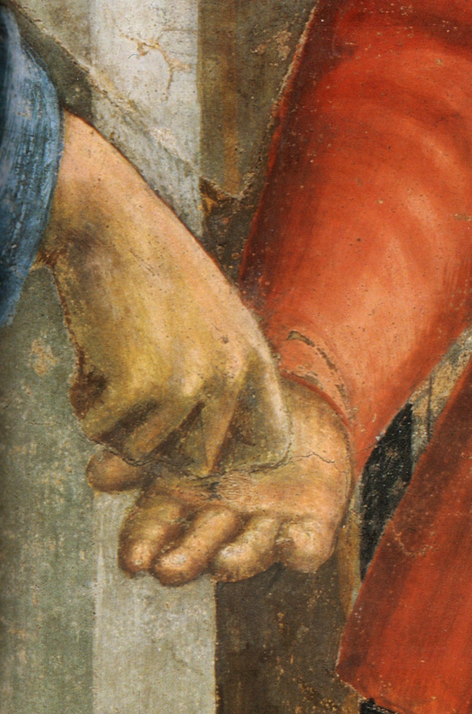 Tribute money